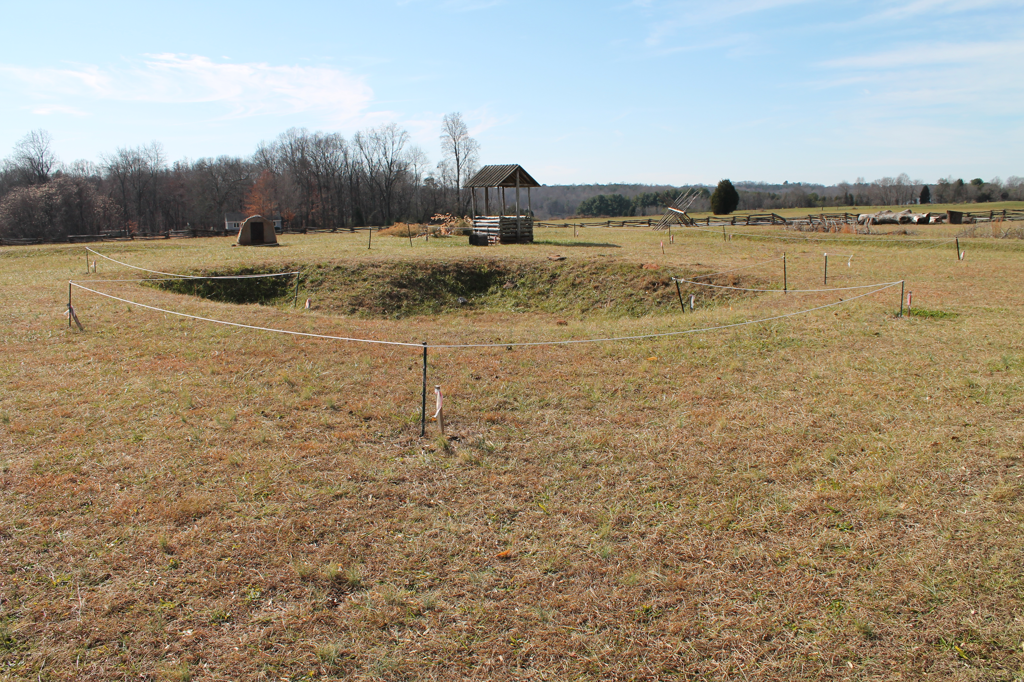 The Fort Dobbs site facing Fort Dobbs Road in Statesville, N.C.